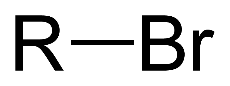 Structural formula of the bromo group, RBr